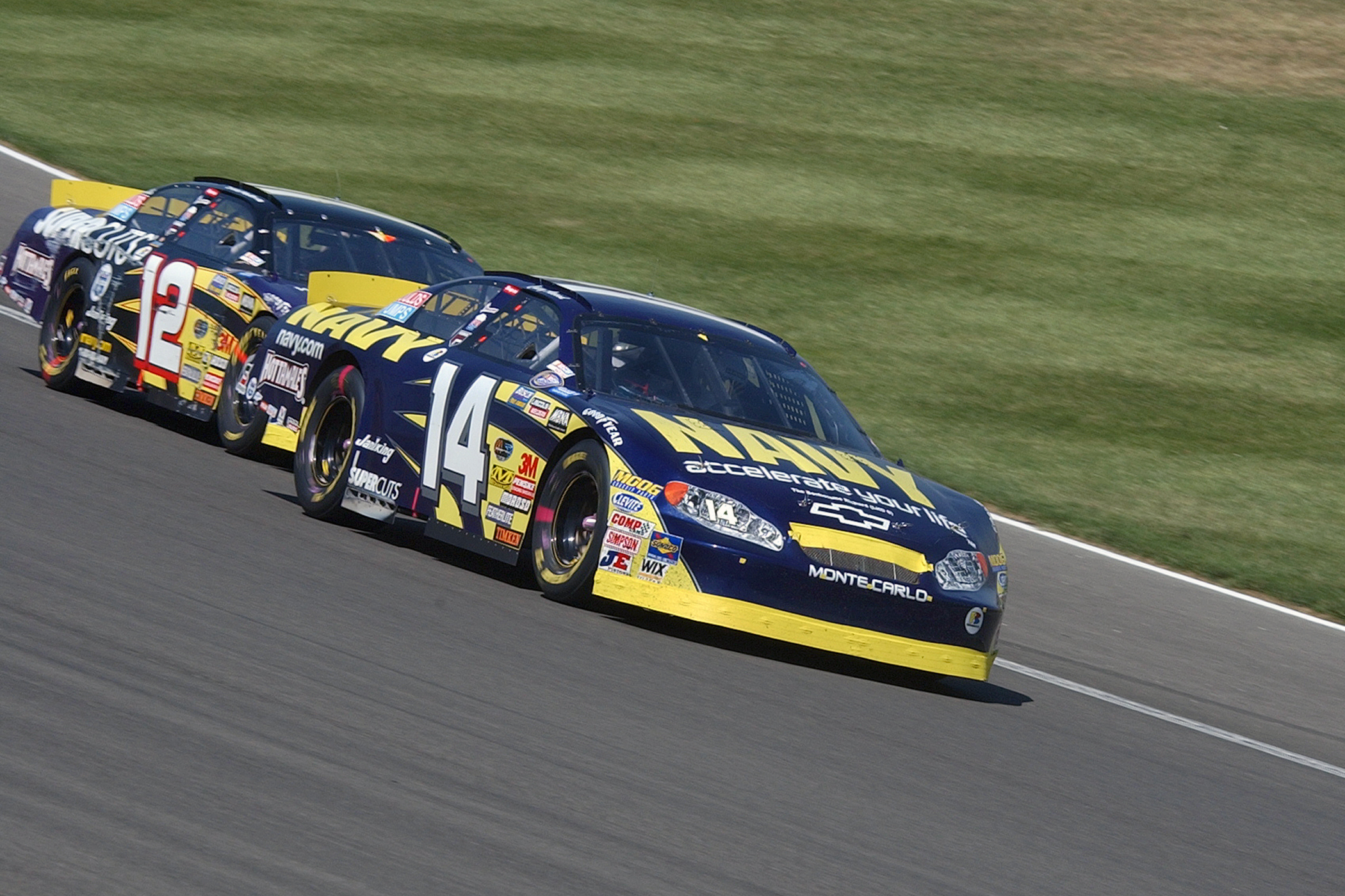 Fontana, Calif. (May 1, 2004) - The Navy No. 14 Chevy Monte Carlo NASCAR roars around turn three during the Stater Bros. 300 race at the California Speedway. The Fitz-Bradshaw owned car is sponsored by the Navy to assist with the "Accelerate Your Life" recruiting campaign. Atwood finished 29th in a field of 43 starting drivers. U.S. Navy photo by Chief Photographer's Mate Edward G. Martens. (RELEASED)